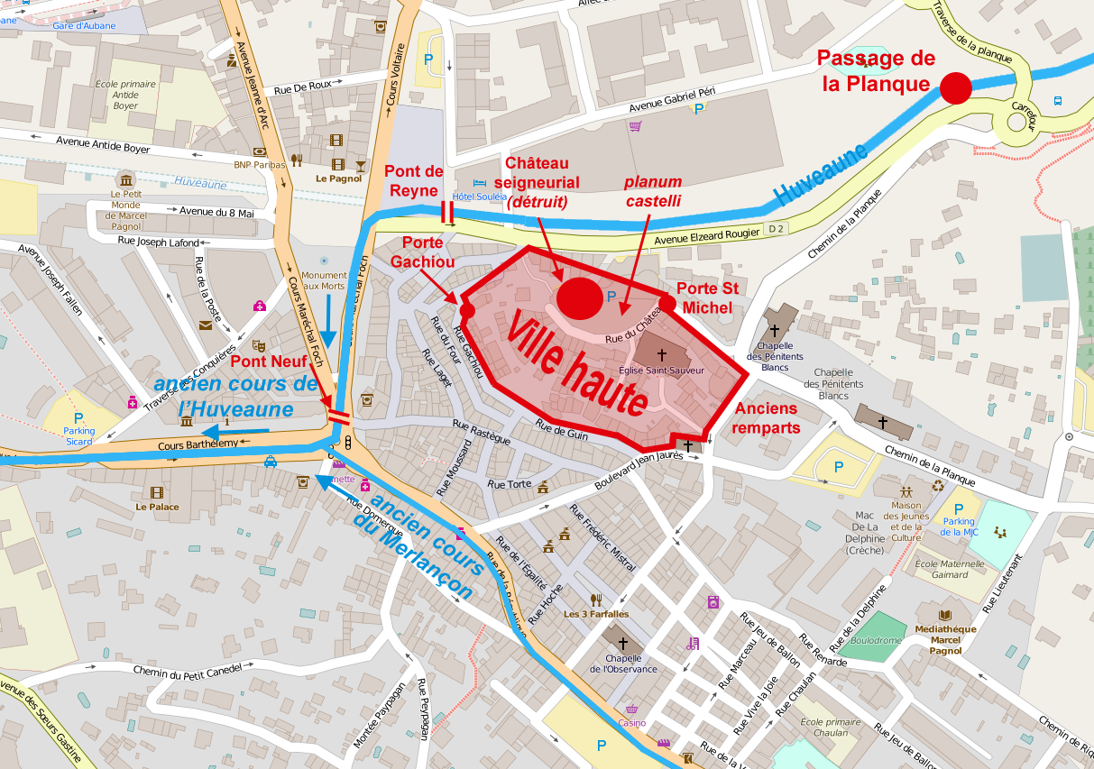 Map of Aubagne "ville haute"